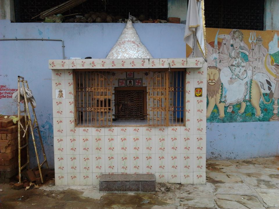 This is Fulbai Maa temple image, it's original.